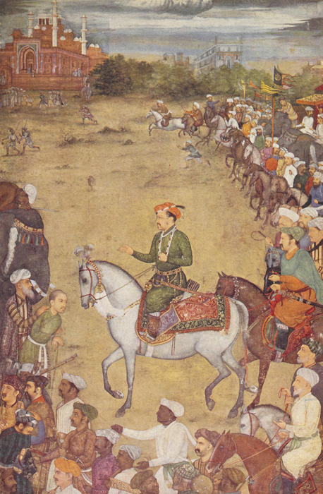 Jahangir Receives a Prisoner, from the Jahangir-nama, c1620 Held by The Chester Beatty Library, Dublin: CBL In 34.5. Jahangir was depicted by his painters, some of whom accompanied him on all his journeys, in every aspect of his life. In this picture he is riding, with a cavalcade of courtiers and attendants, many mounted on horses or elephants, and is passing orders on a bound prisoner who is bowing before him. A clue to the subject is afforded by the representation, in the background, of Akbar's tomb at Sikandra, near Agra. Jahangir visited this tomb, which is still standing, at least twice, in 1608 and in 1619 - the first visit being paid on foot. Probably the second visit is recorded in the miniature. The vividly drawn scene is full of varied detail carefully observed, and the artist, whose name is not given, has used great ingenuity in including, without crowding, so many figures into a small miniature in which, moreover, the Emperor has to occupy much of his space. He has availed himself to a greater extent than usual of Western perspective to achieve his purpose, in a rather unusual composition. The point of view, however, is not quite consistent, the upper part of the picture being regarded from a higher elevation than the Emperor and the foreground. The drawing of the horses has closer verisimilitude than in most contemporary painting. The colours of this miniature have suffered slightly from damp, but retain much of their original quality.